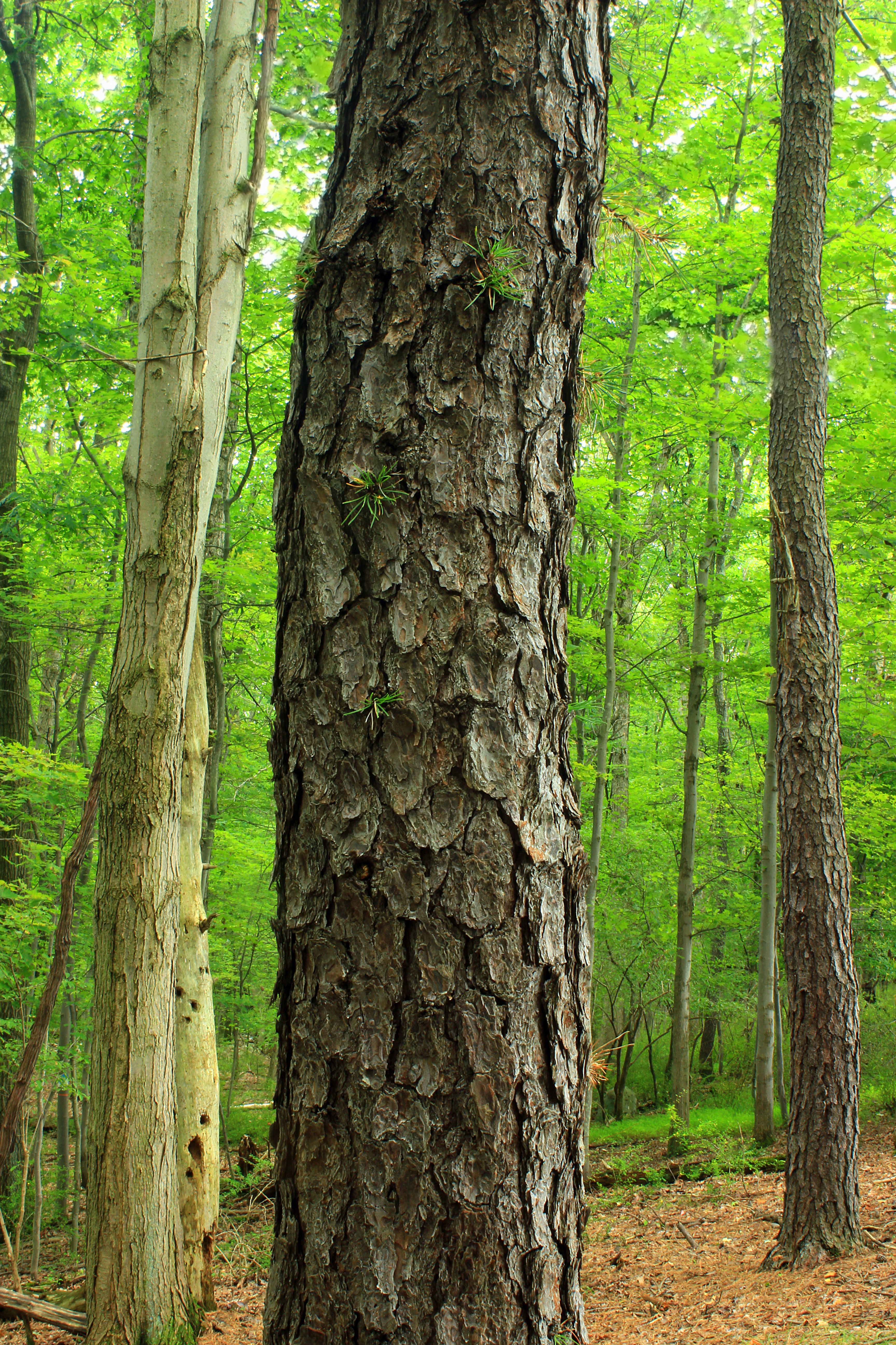 Forest of pitch pines (Pinus rigida) and hardwoods, Monroe County, within the Cherry Valley National Wildlife Refuge.